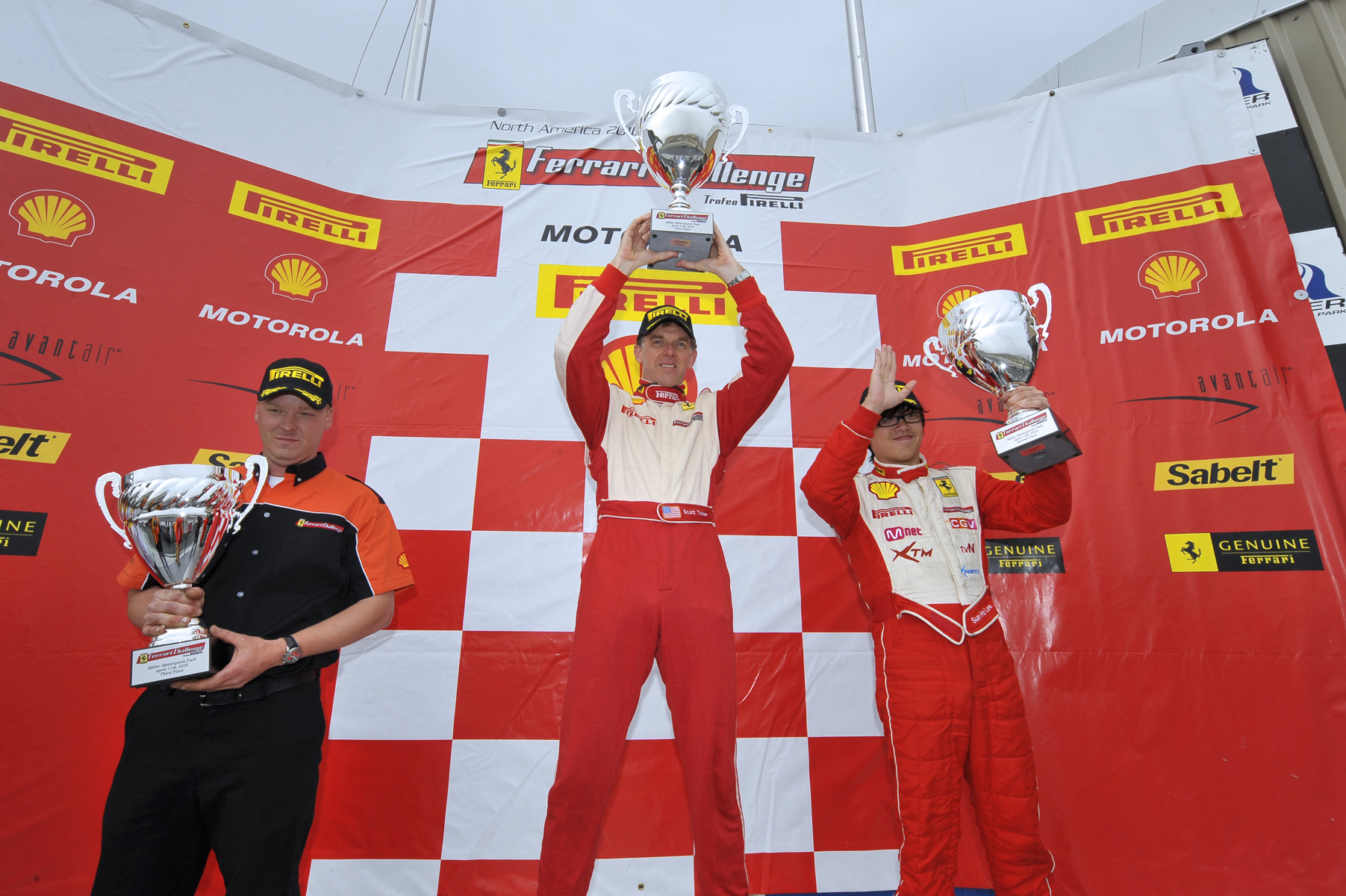 Scott Tucker at the 2010 Ferrari Challenge